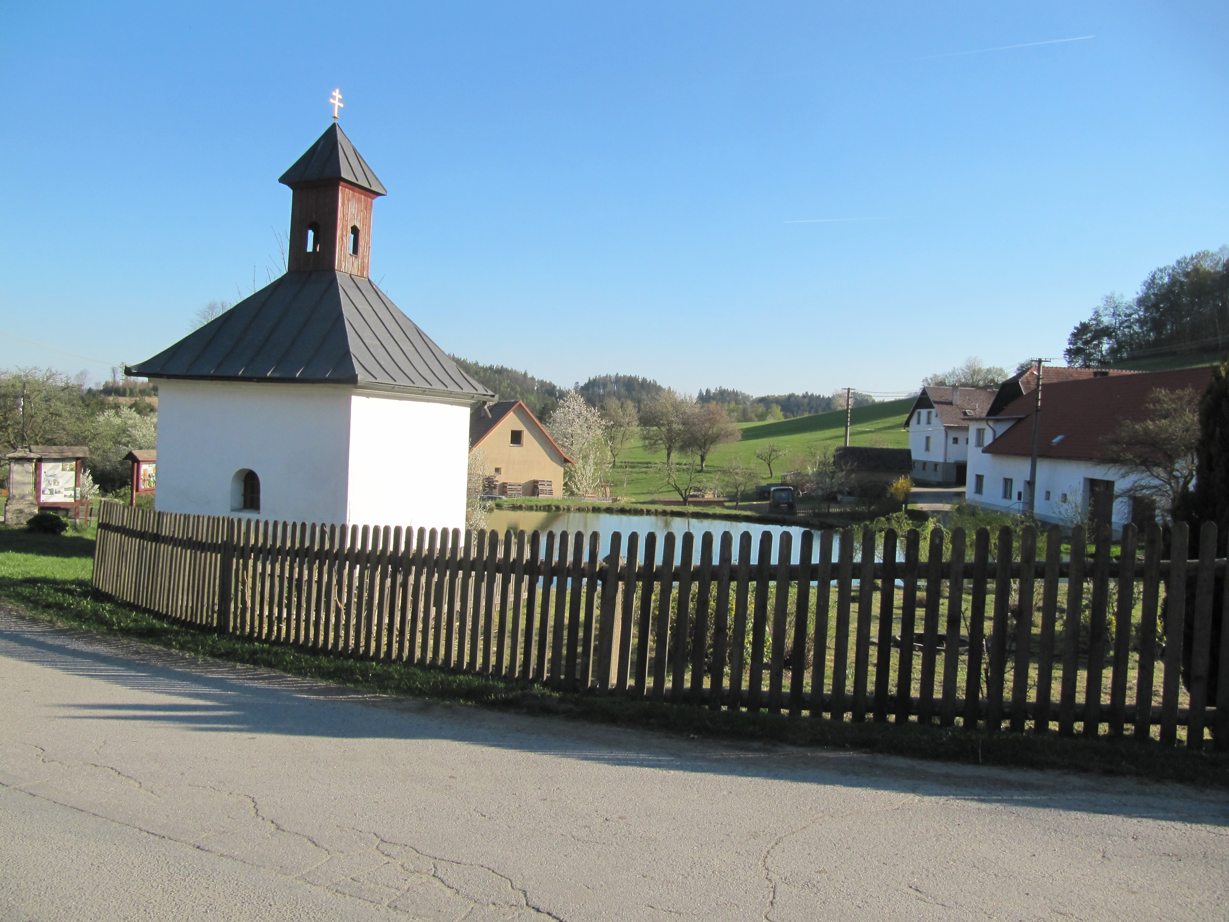 Bystřice nad Pernštejnem, Žďár nad Sázavou District, Czechia, part Kozlov.